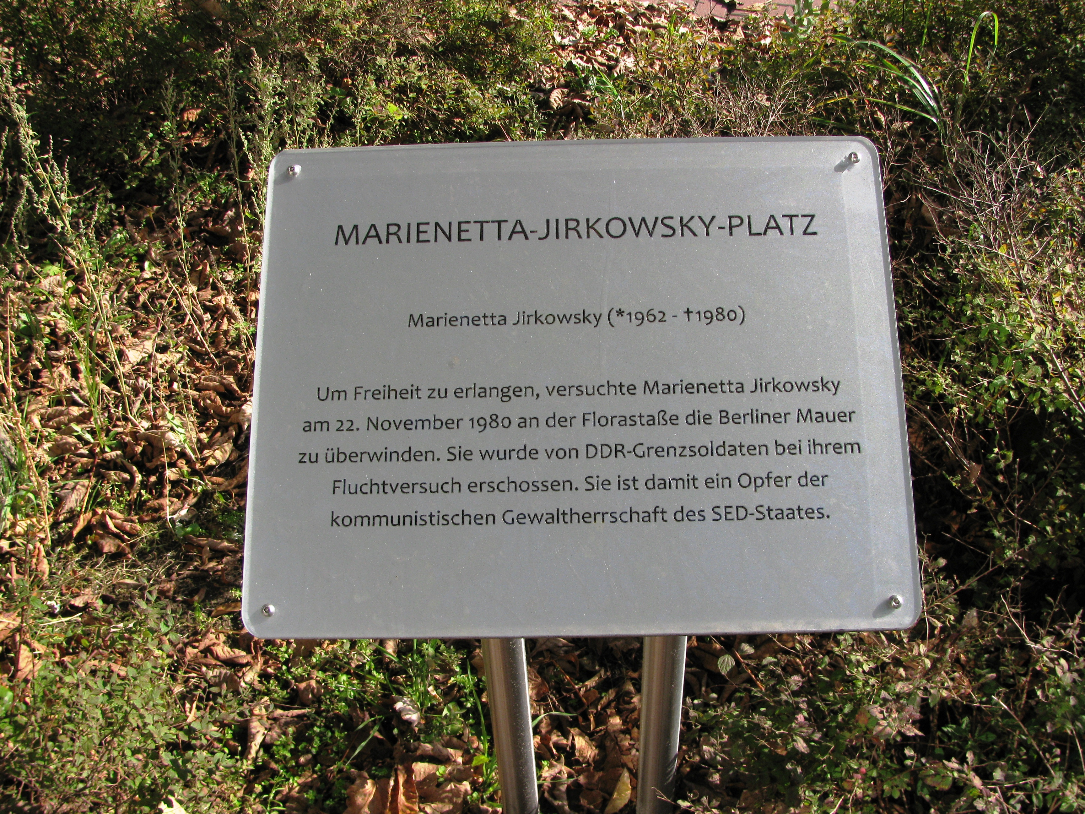 Commemorative plaque for Marienetta Jirkowsky, Berlin Wall victim, Marienetta-Jirkowsky-Platz, Hohen Neuendorf, Germany.